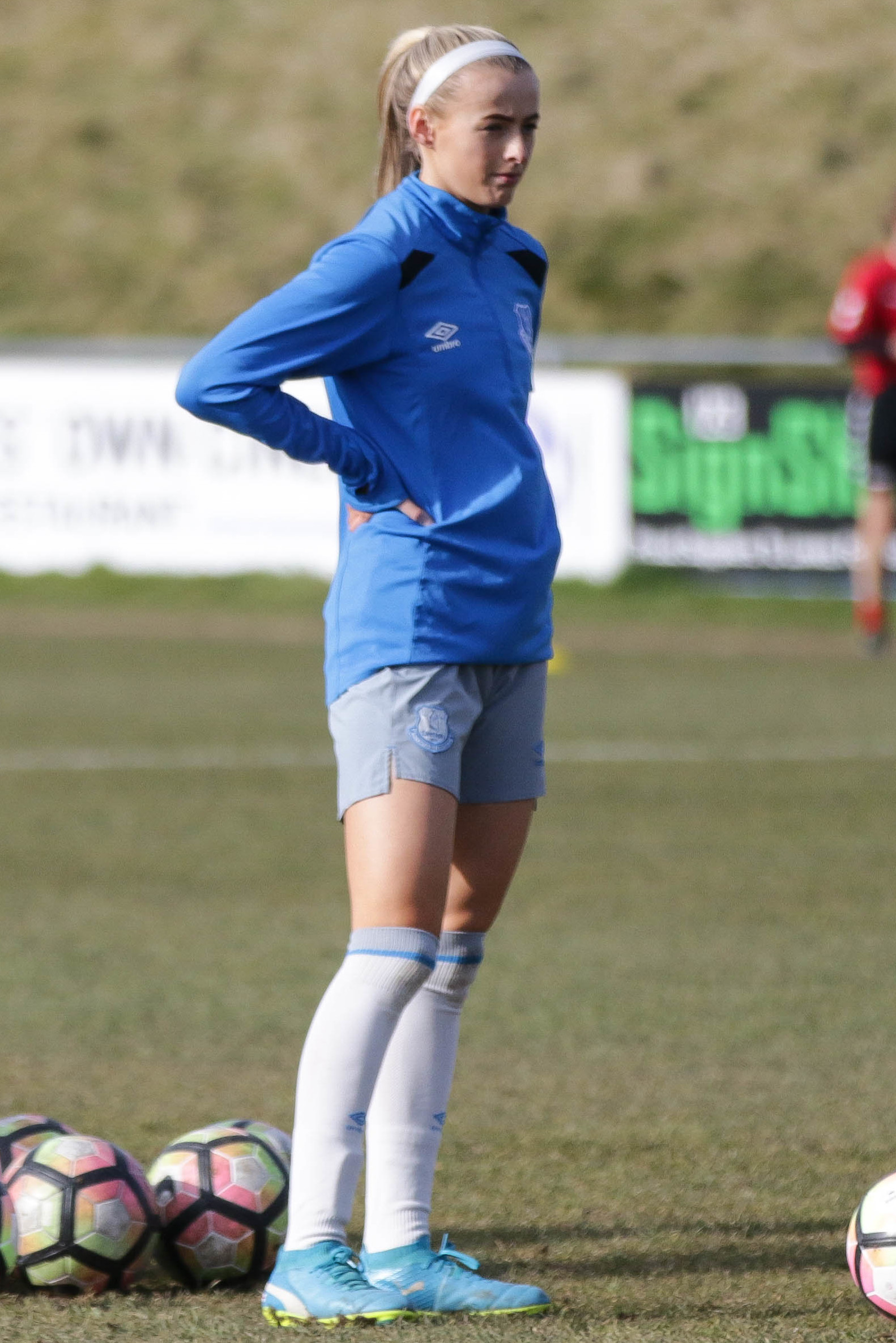 Lewes FC Women 0 Everton Ladies 6 FAC 6th Rd 18 02 2018-42.jpg